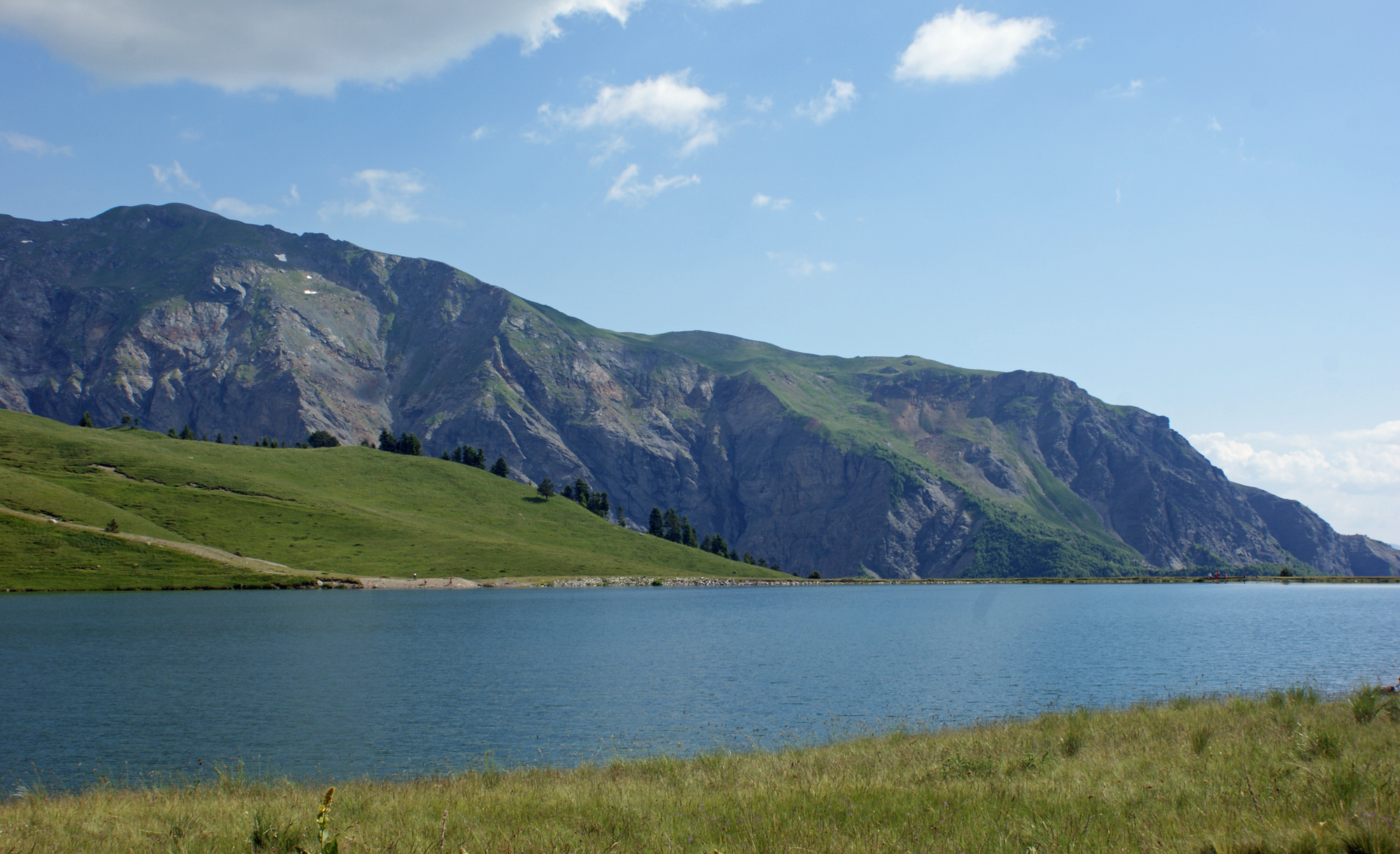 Gramë Lake, Dibër County, Albania – Gramë Mountain (2345 m) in the background